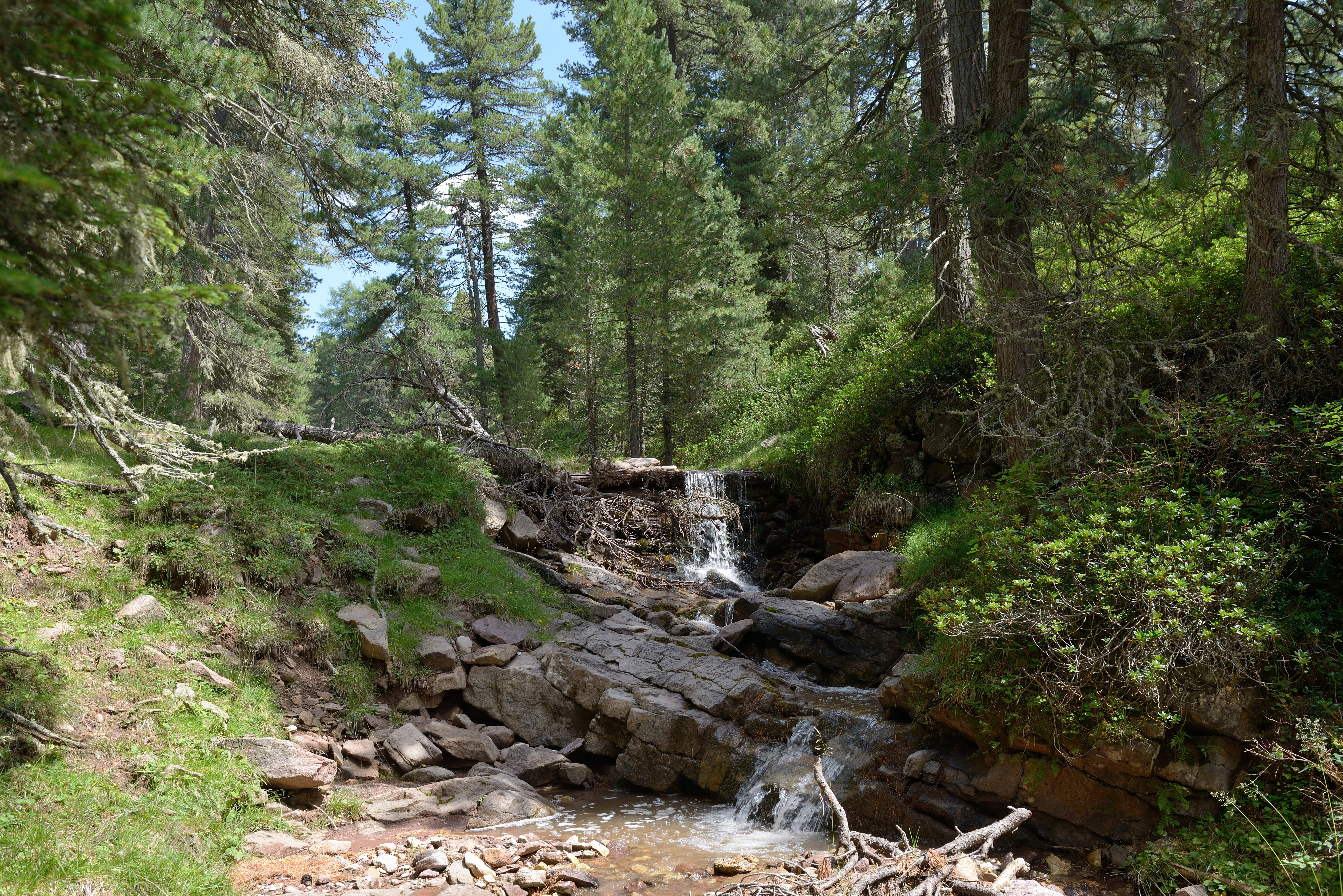 Weir on the Grialëces creek in St. Ulrich in Gröden